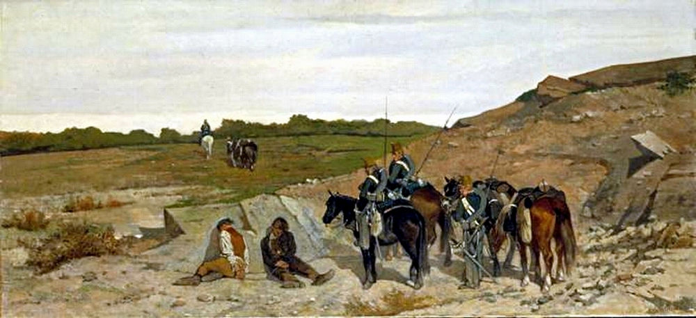 campain against brigandage